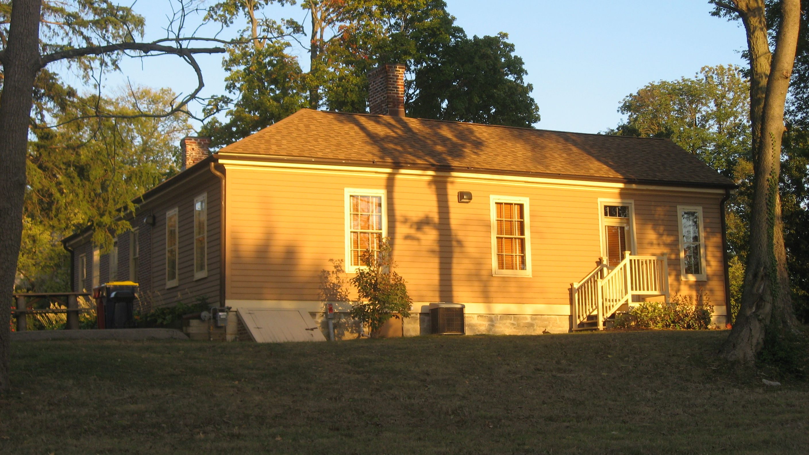 Western side and rear of the Legg House, located at 324 S. Henderson Street on the campus of Indiana University in Bloomington, Indiana, United States. Built in 1848, it is listed on the National Register of Historic Places.